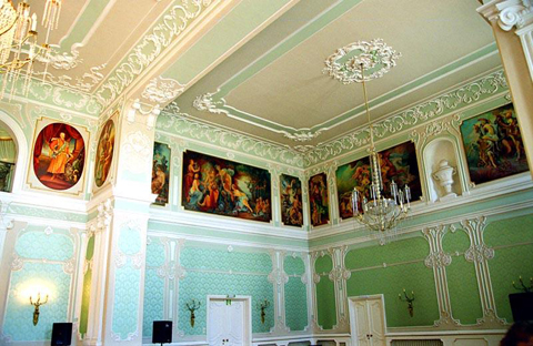 Ballroom of the Branicki Palace in Białystok, Poland.